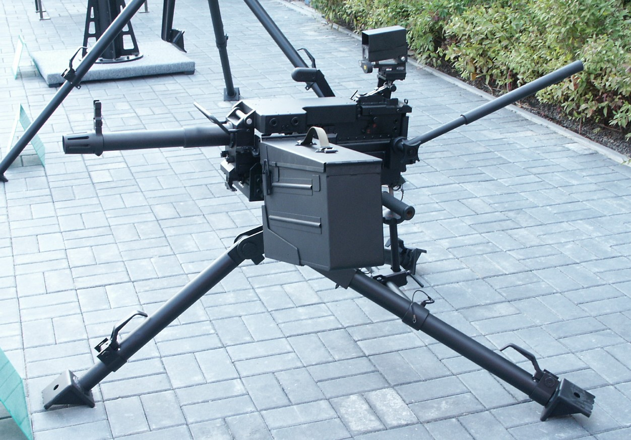 Polish automatic grenade launcher GA-40 prototype